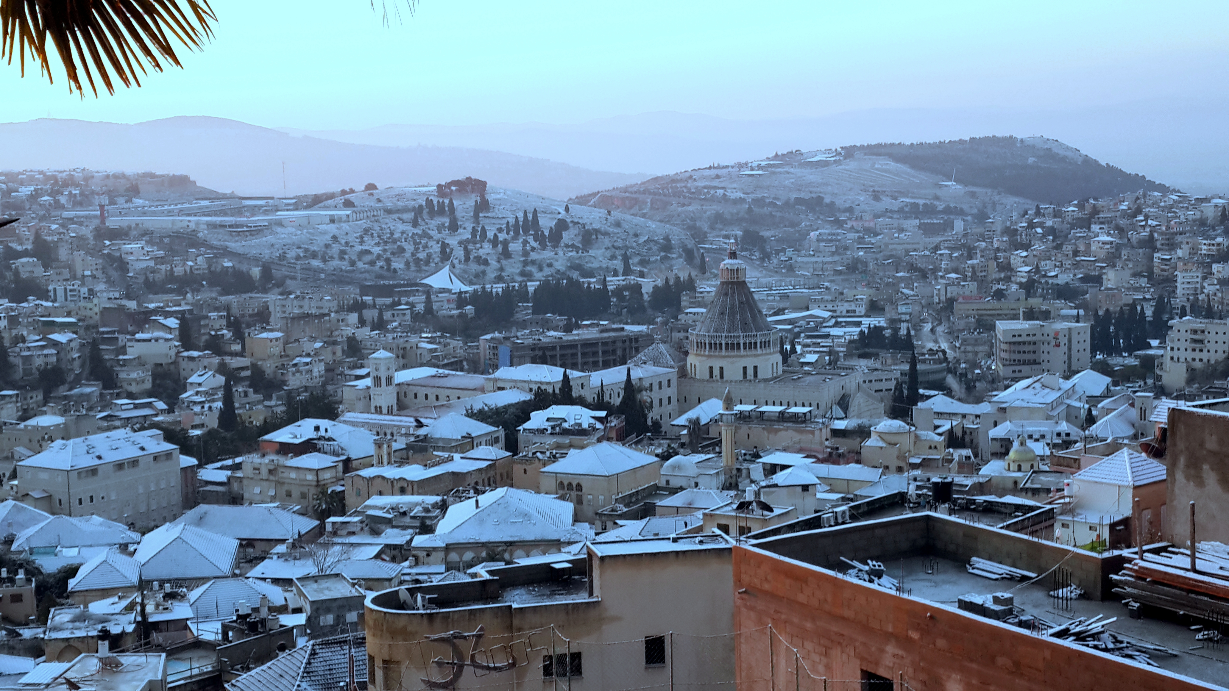 Snow in Nazareth, Israel